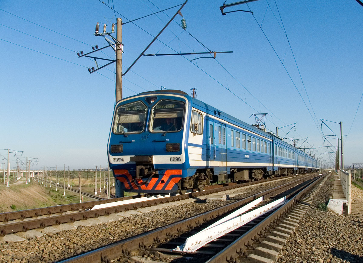 EMU train ED9M-0096.